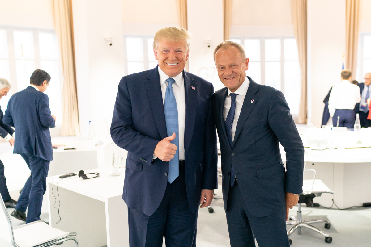 President Donald J. Trump meets with the President of European Council Donald Tusk at the Centre de Congrés Bellevue Sunday, Aug. 25, 2019, in Biarritz, France, site of the G7 Summit. (Official White House Photo by Shealah Craighead)